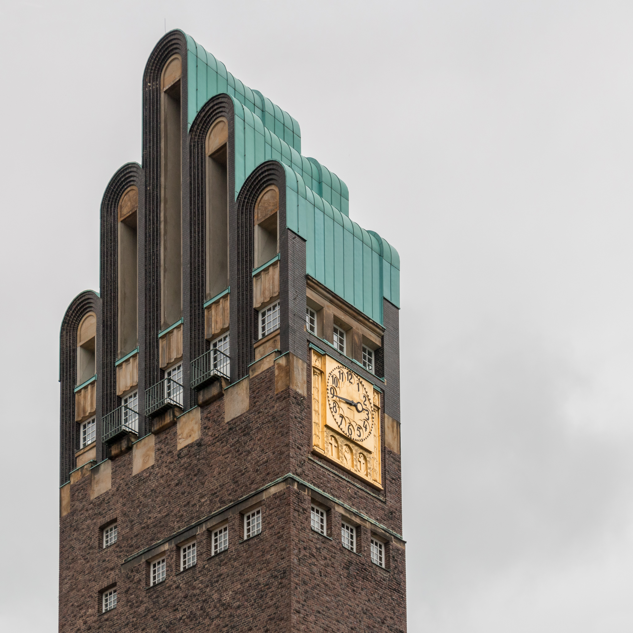 Clock and Roof of the Wedding Tower (Hochzeitsturm), Mathildenhöhe, Darmstadt, Germany